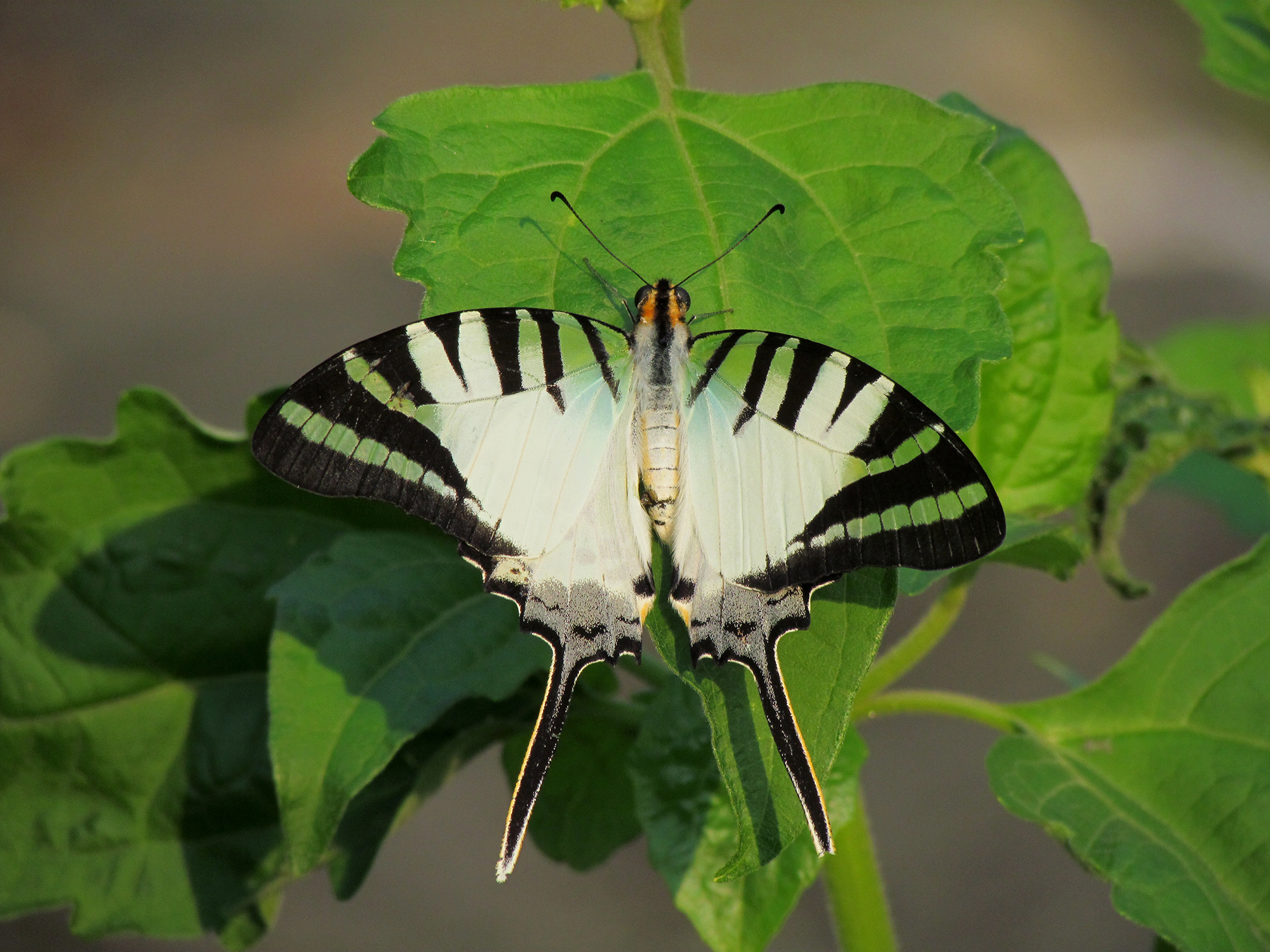 Open wing of Graphium antiphates Cramer, 1775 – Five-bar Swordtail. Subspecies: Graphium antiphates pompilius Fabricius, 1787 – Indo-Chinese Five-bar Swordtail